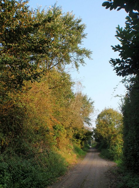 Pinn Lane, Exeter. This 180-metre stretch of the lane that ran north from the A30 to Monkerton and Pinhoe remains charmingly rural, in spite of being within the Exeter Business Park, and is closed to traffic. A section beside 783871 is now a modern footpath, and the section to the north has been progressively modernised and is now a commuter route.